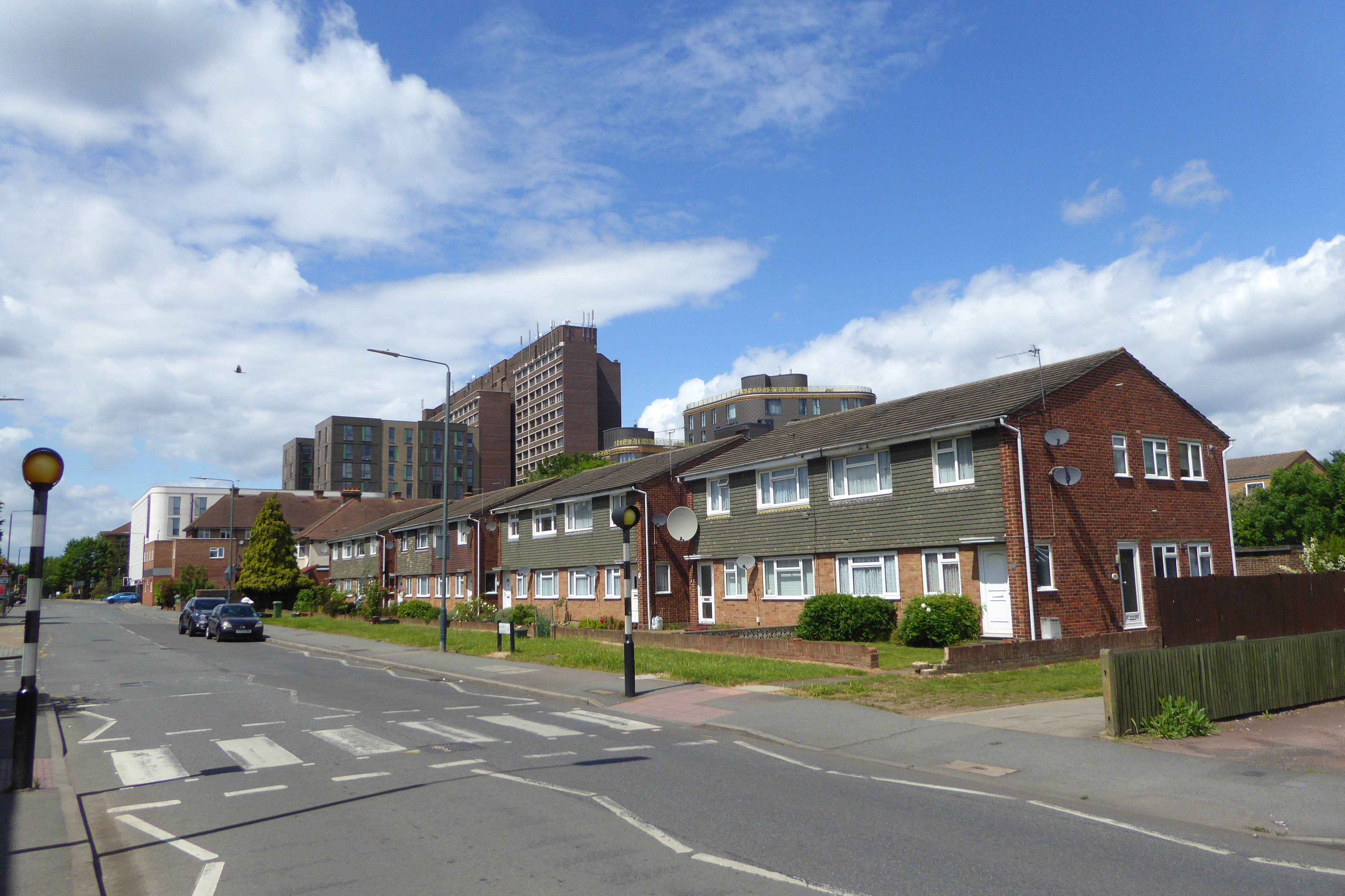 The northwest facing view along Faraday Avenue in Sidcup, London Borough of Bexley.